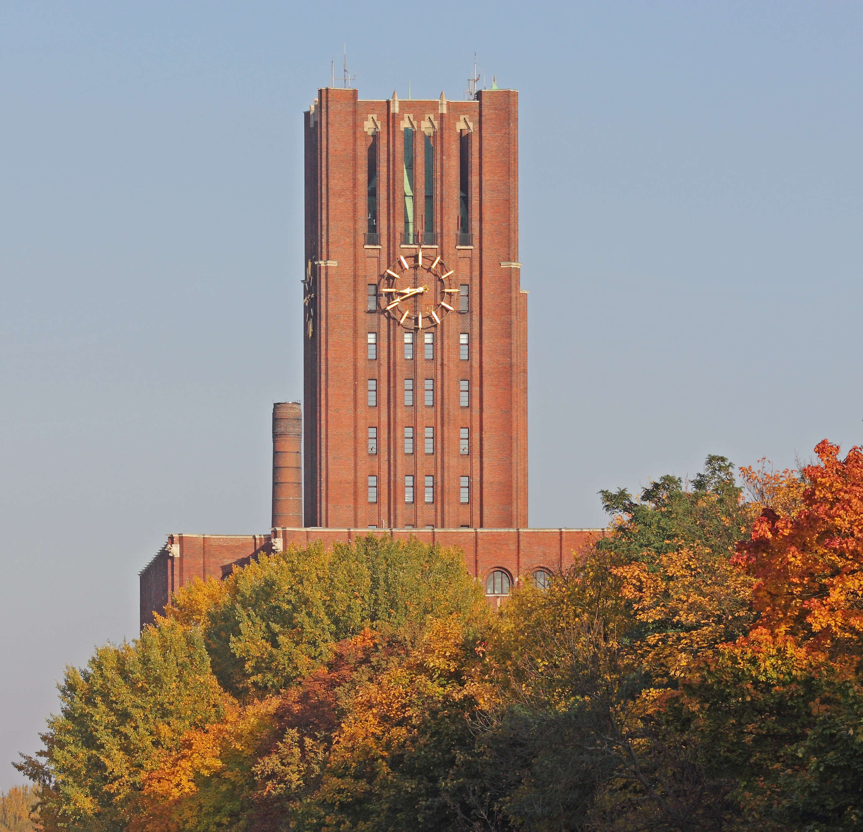 Berlin-Tempelhof. Clock tower of the Ullstein House.